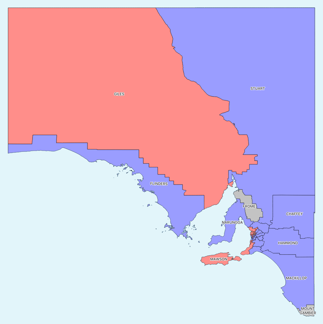 Outcome of 2018 South Australian state election in regional South Australia. Electoral districts are coloured by winning party: Blue = Liberal, Red = Labor, Grey = Independent.